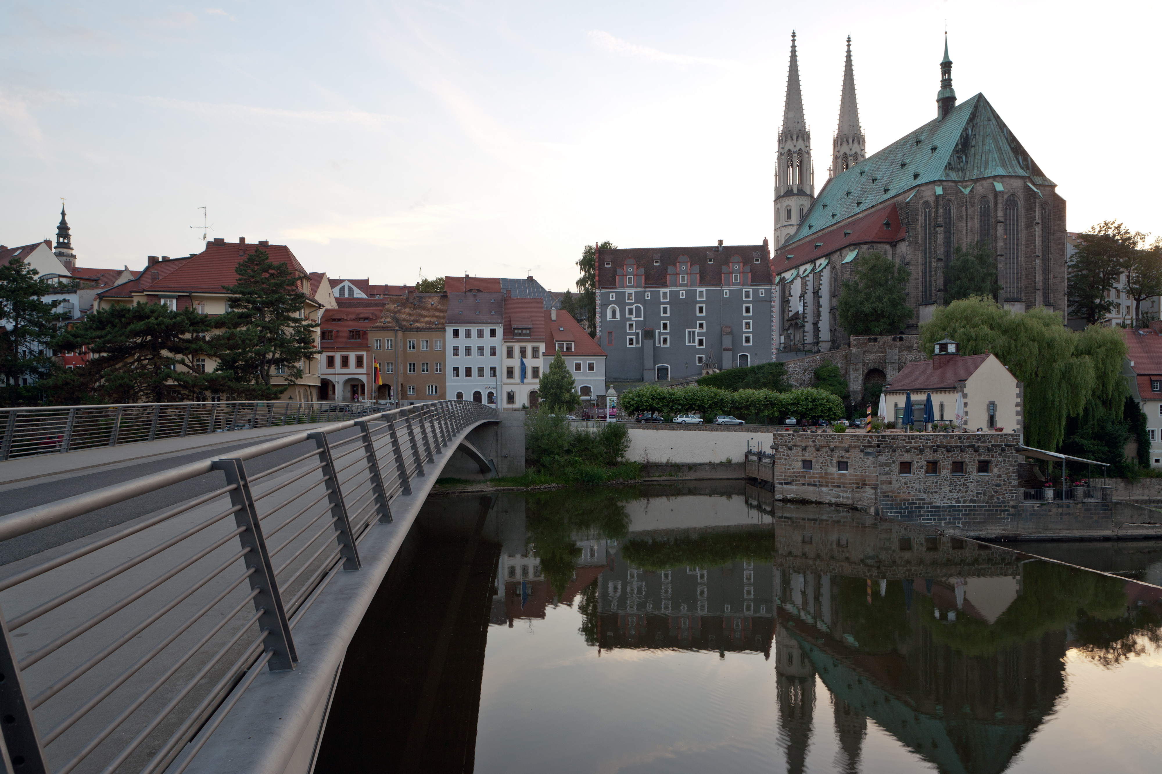 Görlitz: View of the city with Altstadtbrücke (Old Town Bridge) and St. Peter und Paul (St. Peter and Paul) as seen from the east